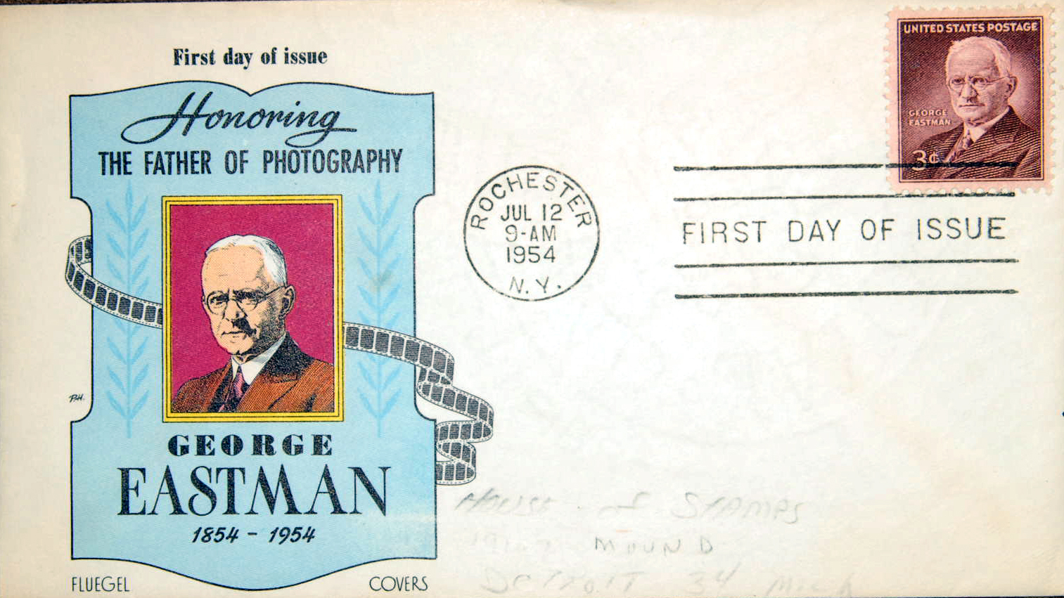 George Eastman 3-cent stamped First day cover issued by USPOD in 1954 - This image is from a photo taken of an original first day cover.